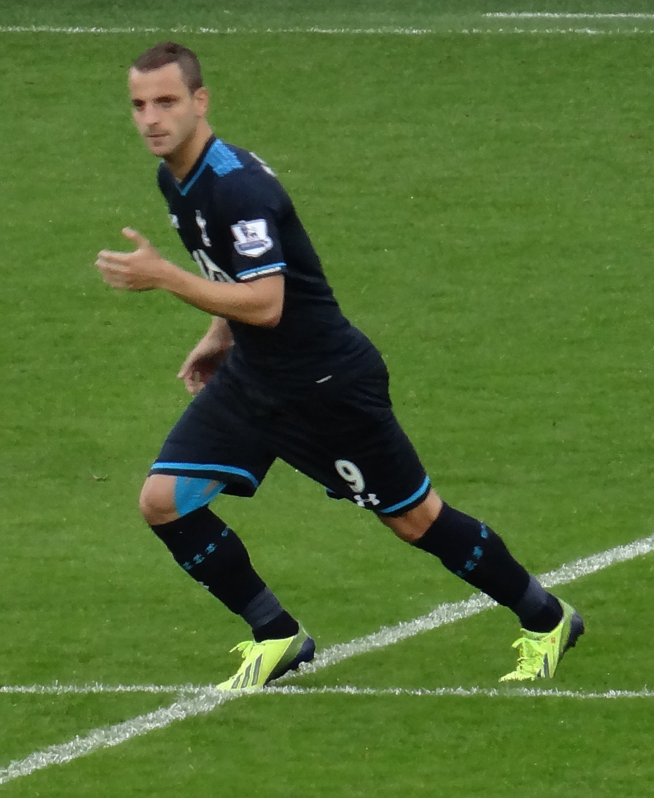 Roberto Soldado playing for Tottenham Hotspur in 2013